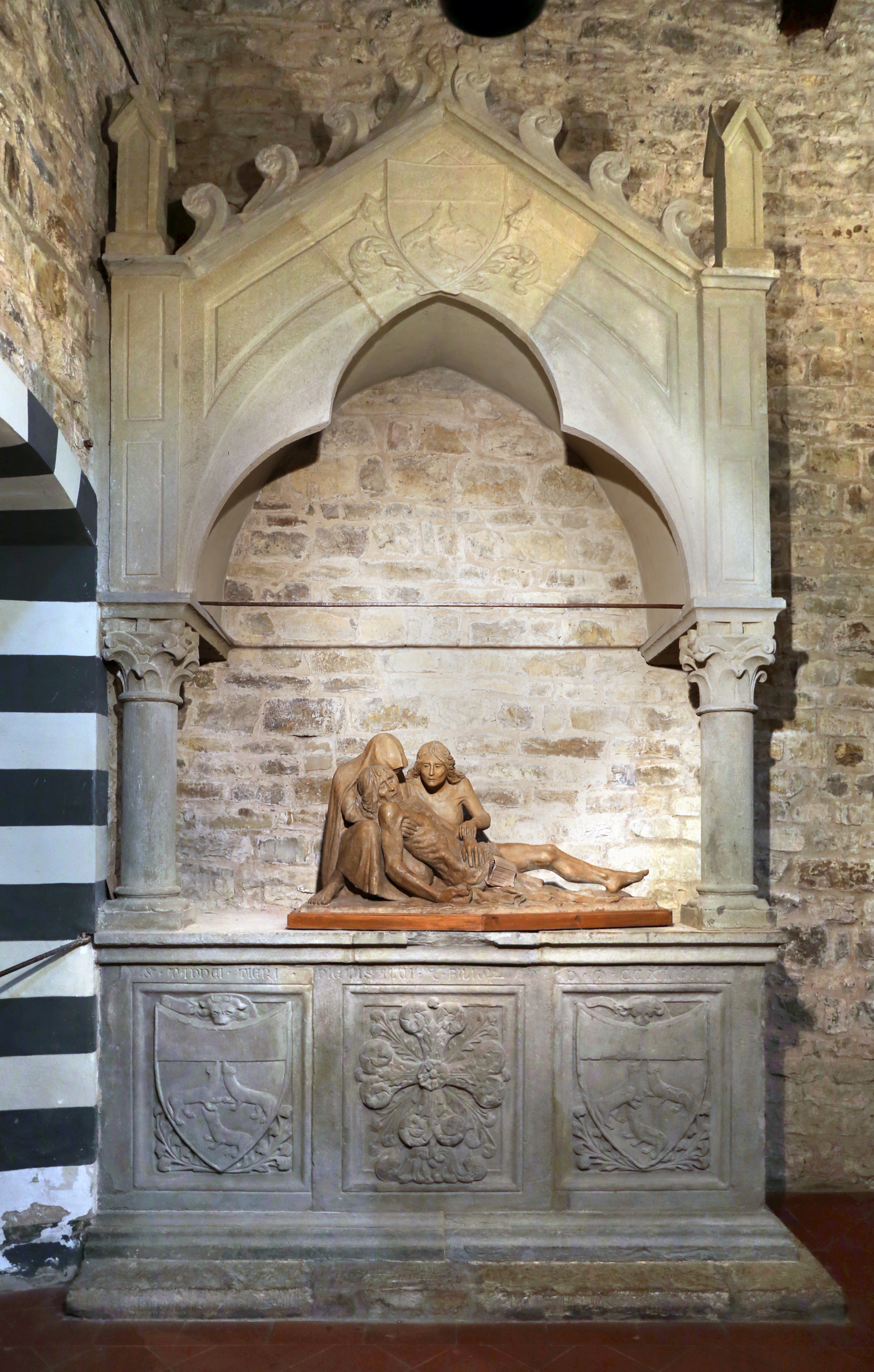 Catellini da Castiglione Tomb